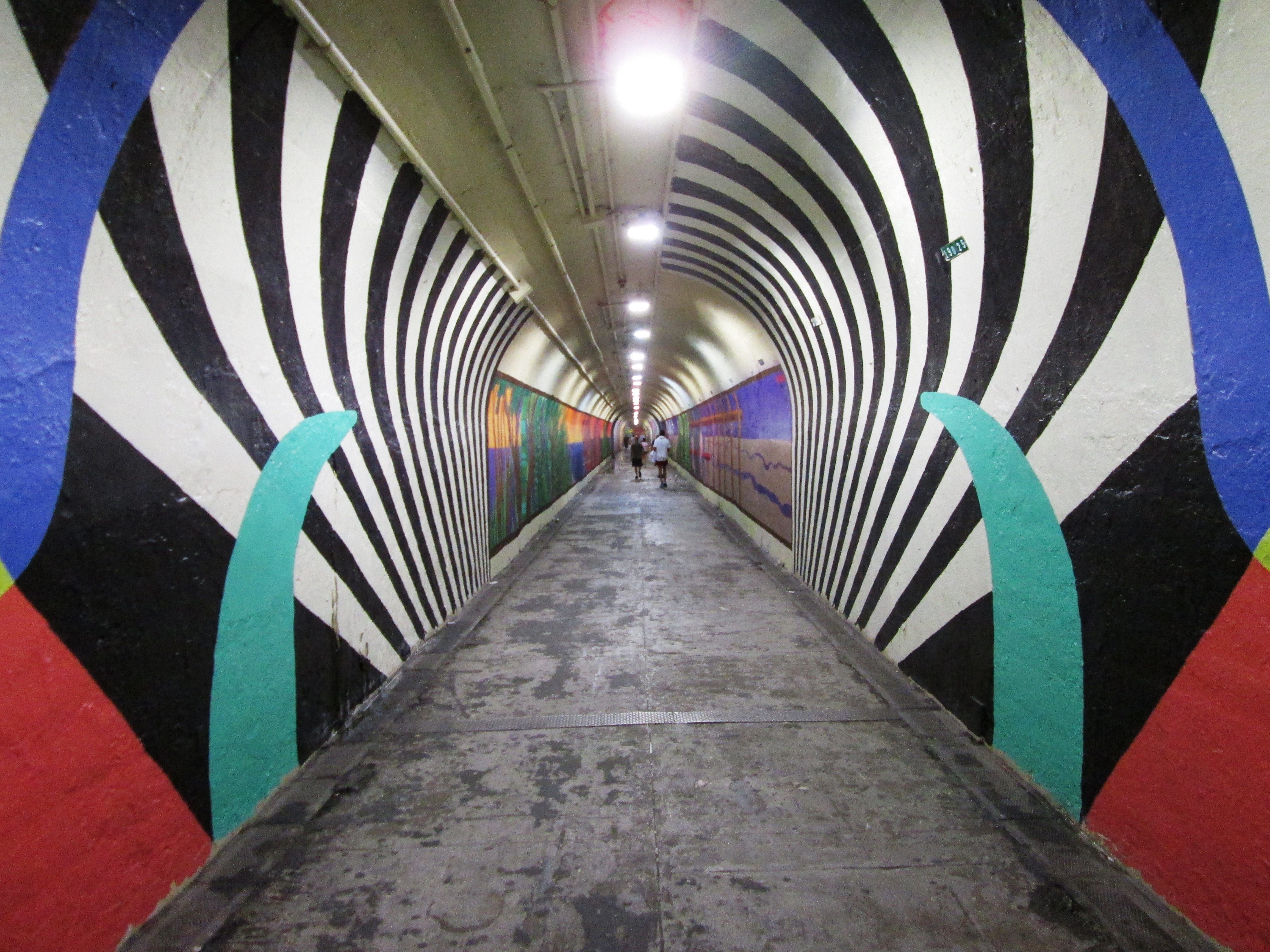 The tunnel to the 191st Street station of the IRT Broadway-Seventh Avenue Line ("1" service) from the entrance at 4452 Broadway at the intersection with 190th Street, just south of Fairview Avenue, in the Washington Heights neighborhood of Manhattan, New York City.